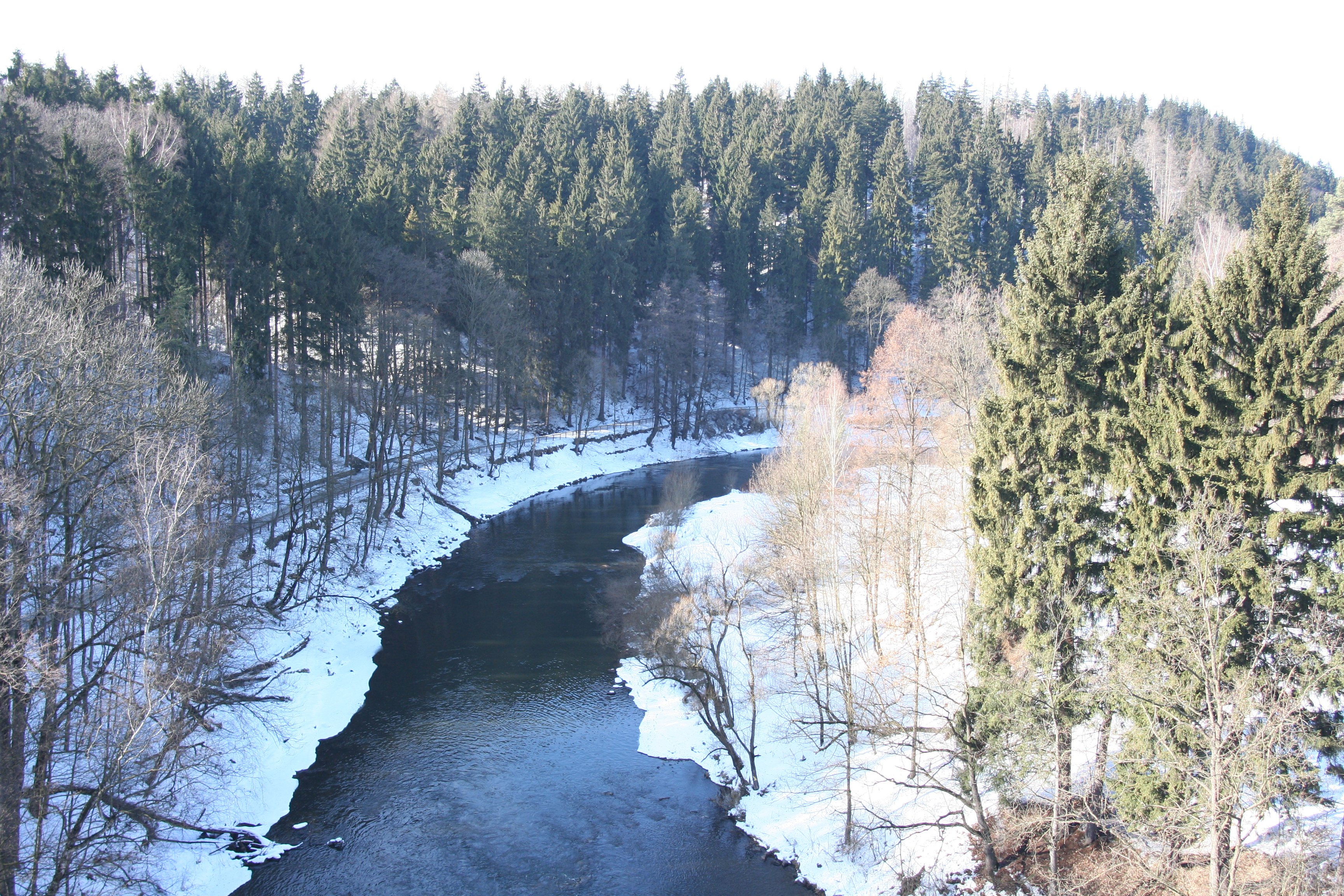 View form railway bridge near Krzywousty Hill, Bobr river, Jelenia Góra, Lower Silesia, Poland.